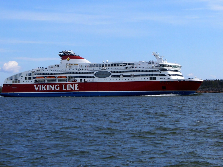 M/S "Viking XPRS" (Engine output 40,000 kW) ca 15 minutes after departure from Helsinki Harbor, direction Tallinn, Estonia